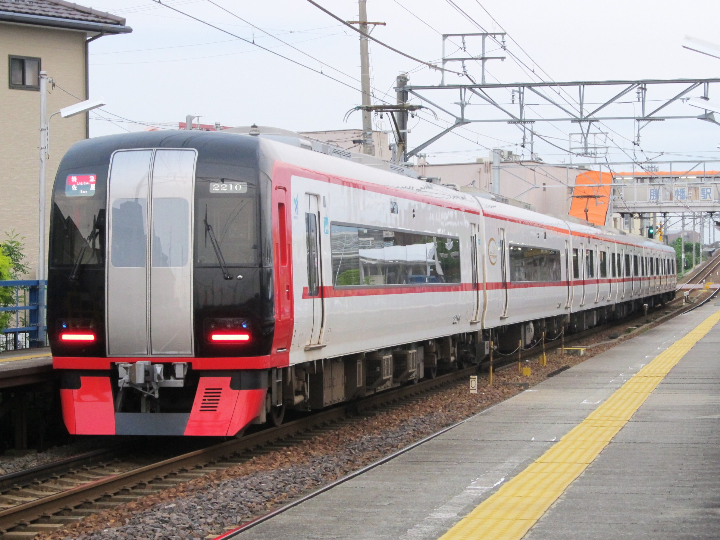 Meitetsu 2200 series. Limited Express bound for Saya. In Tsushima Line.